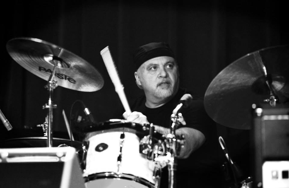 Photo of Tony Creasman playing at the Hometown Holiday Jam of 2013